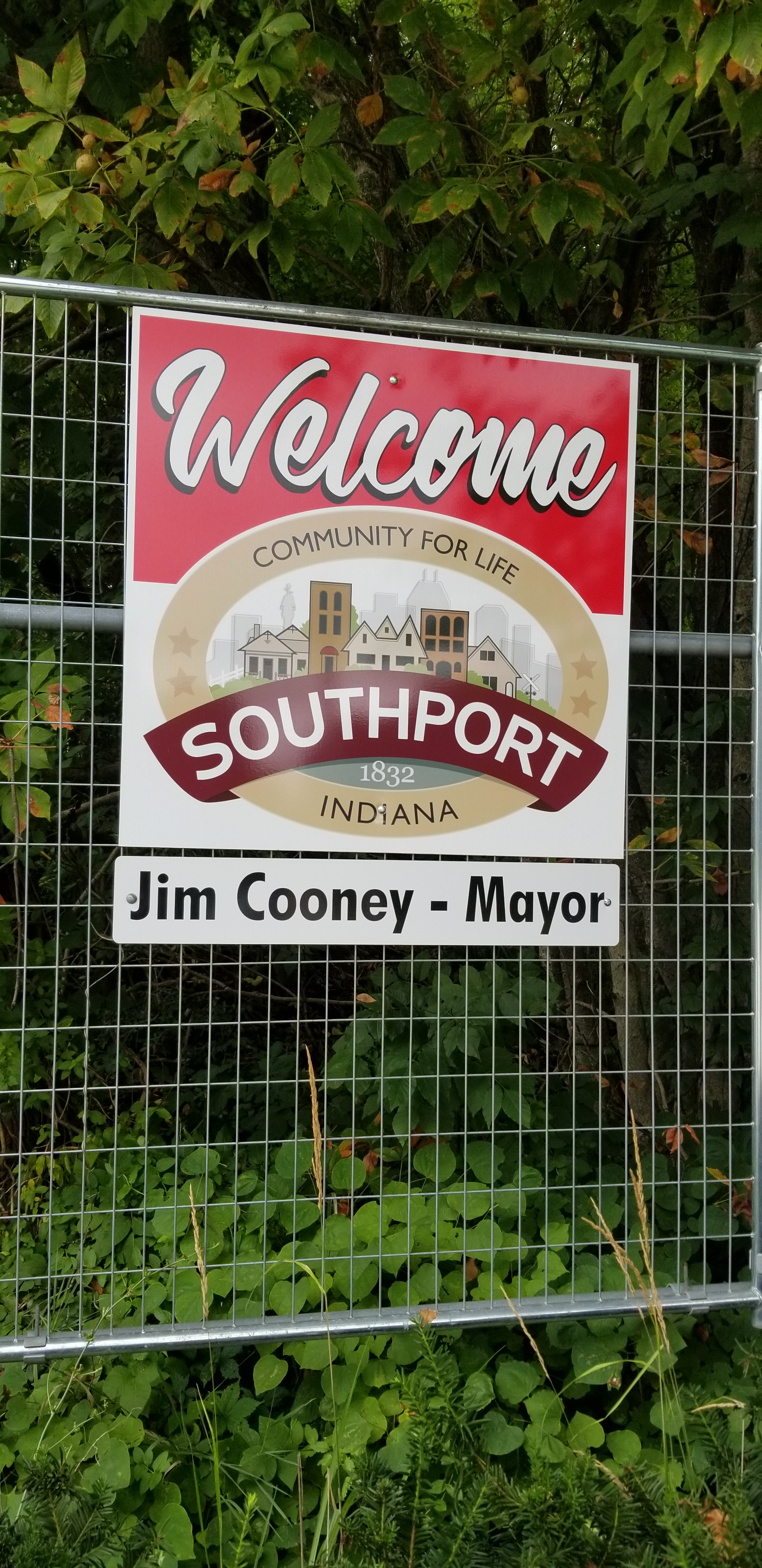 A sign welcoming visitors to Southport, Indiana and providing information about the mayor.